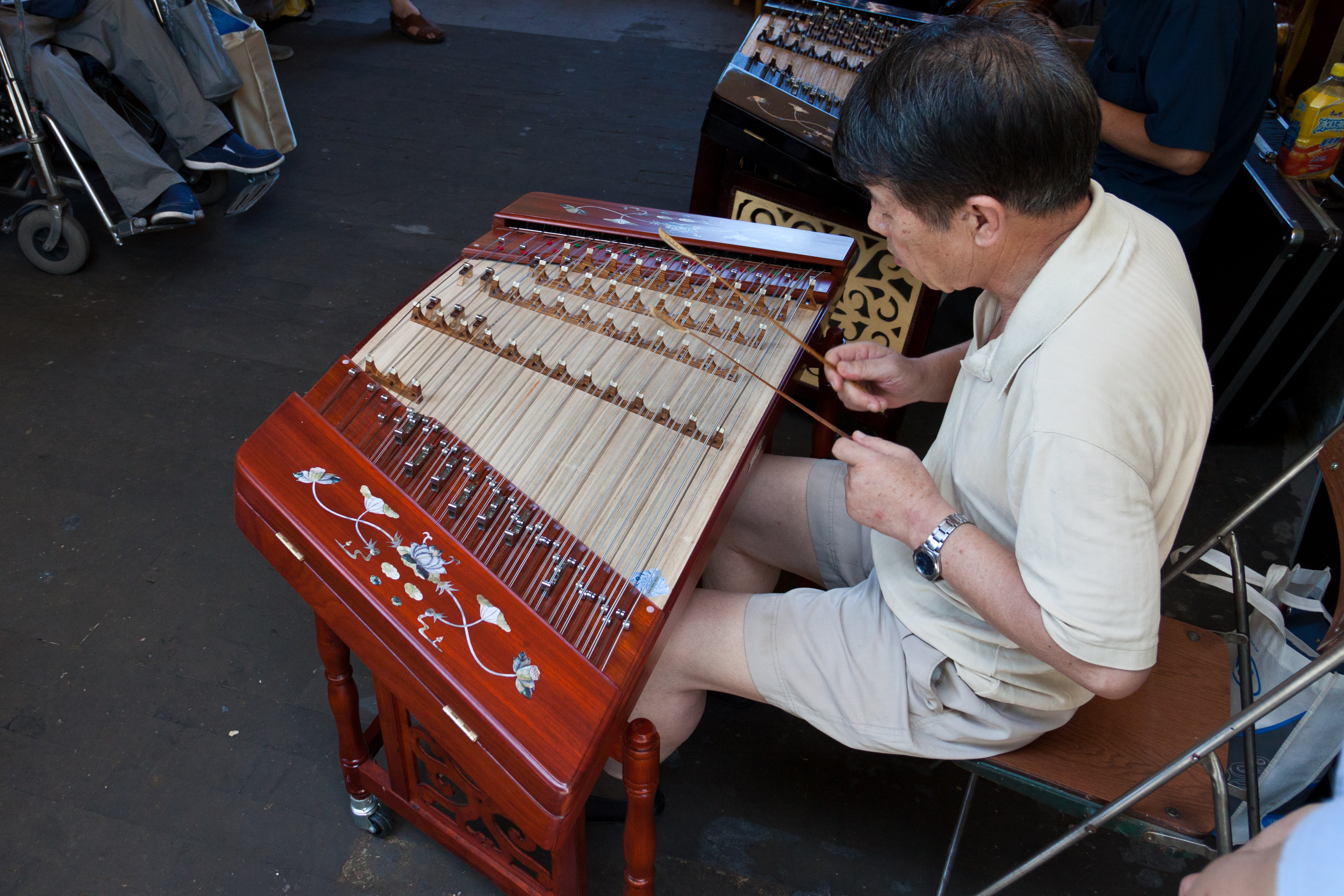 A man is playing the yangqin ( also spells as yangquin).